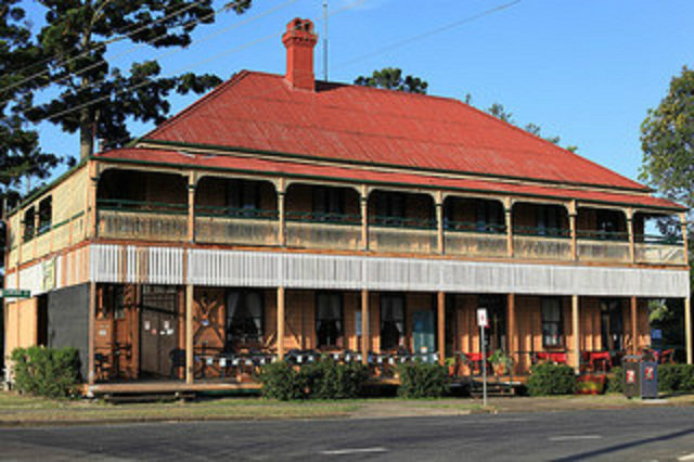 Infamous landmark and icon of Marburg, Edmond Street the Marburg Hotel